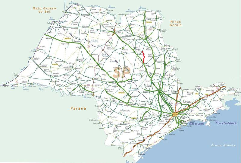 Map of SP-318: Engenheiro Thales de Lorena Peixoto Júnior Highway